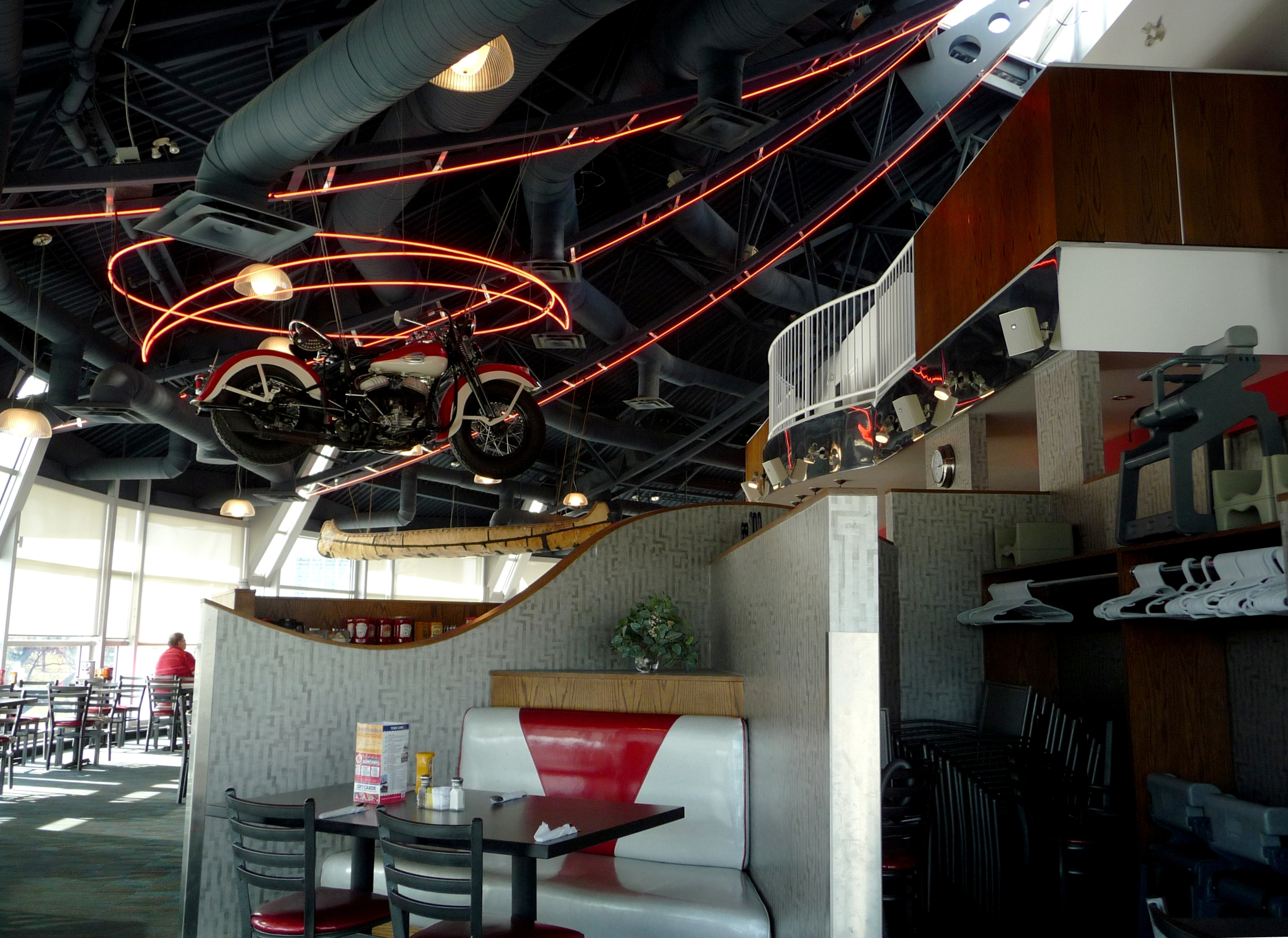 former Salisbury House on the Bridge